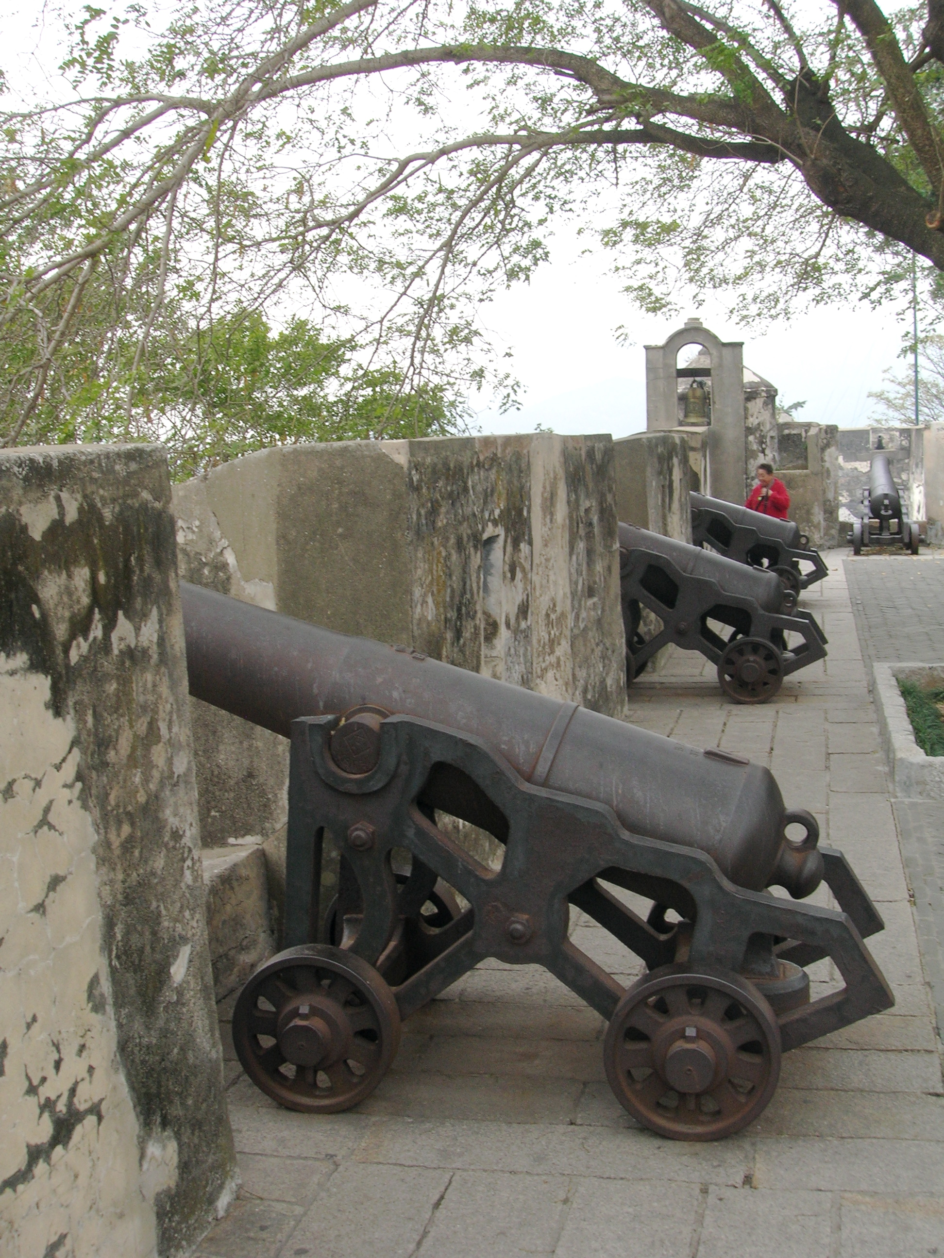 Fortaleza do Monte, Macau: cannons line in the fortress walls.